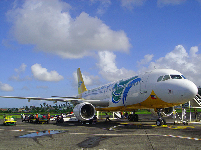 Cebu Pacific Airbus A320-200 at Legazpi Airport, Albay, Philippines.